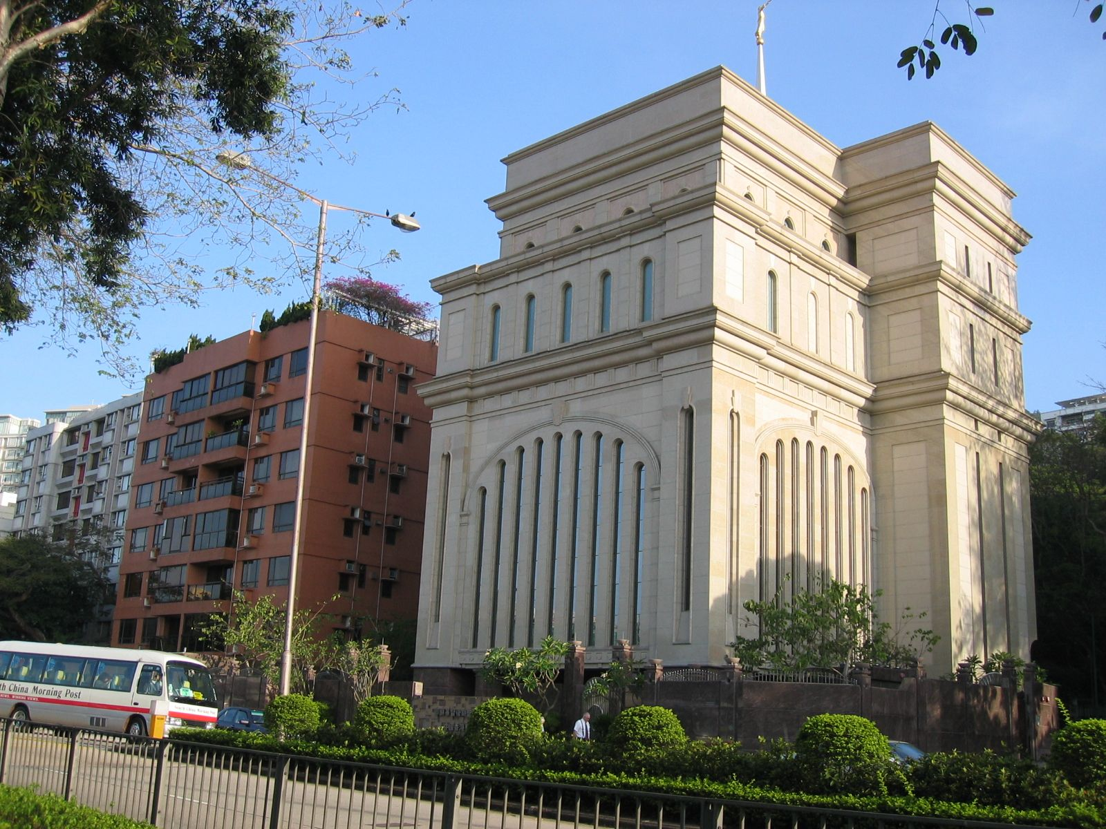 The Hong Kong China Temple of The Church of Jesus Christ of Latter-day Saints, Hong Kong on the intersection of Devon Road and Cornwall Street